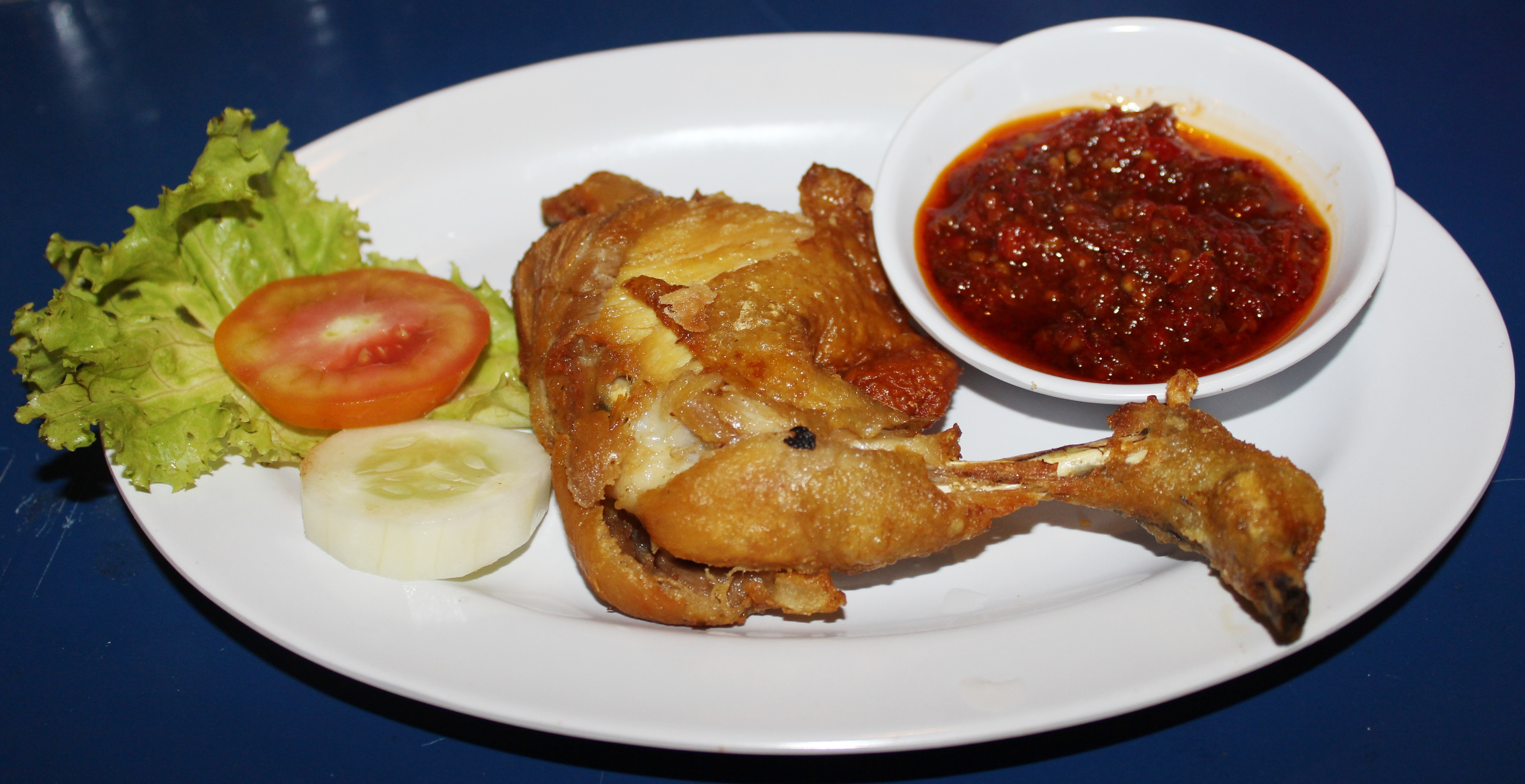 Ayam penyet (literally "smashed chicken") served in a Javanese restaurant in Pekanbaru, Riau.